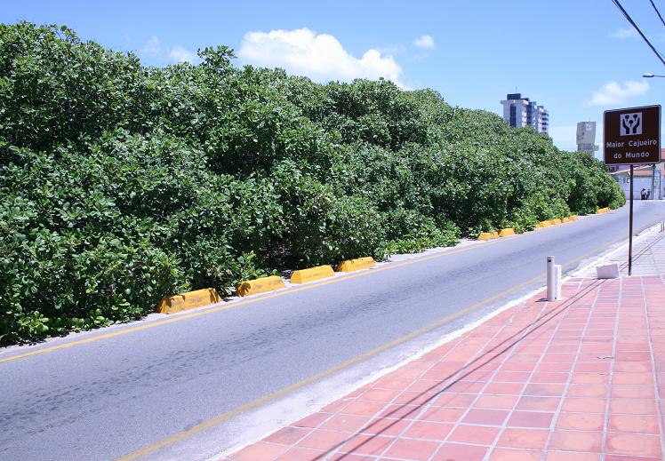 World's largest cashew tree from intersecting road Rota do Sol, in Parnamirim, Rio Grande do Norte, Brazil.